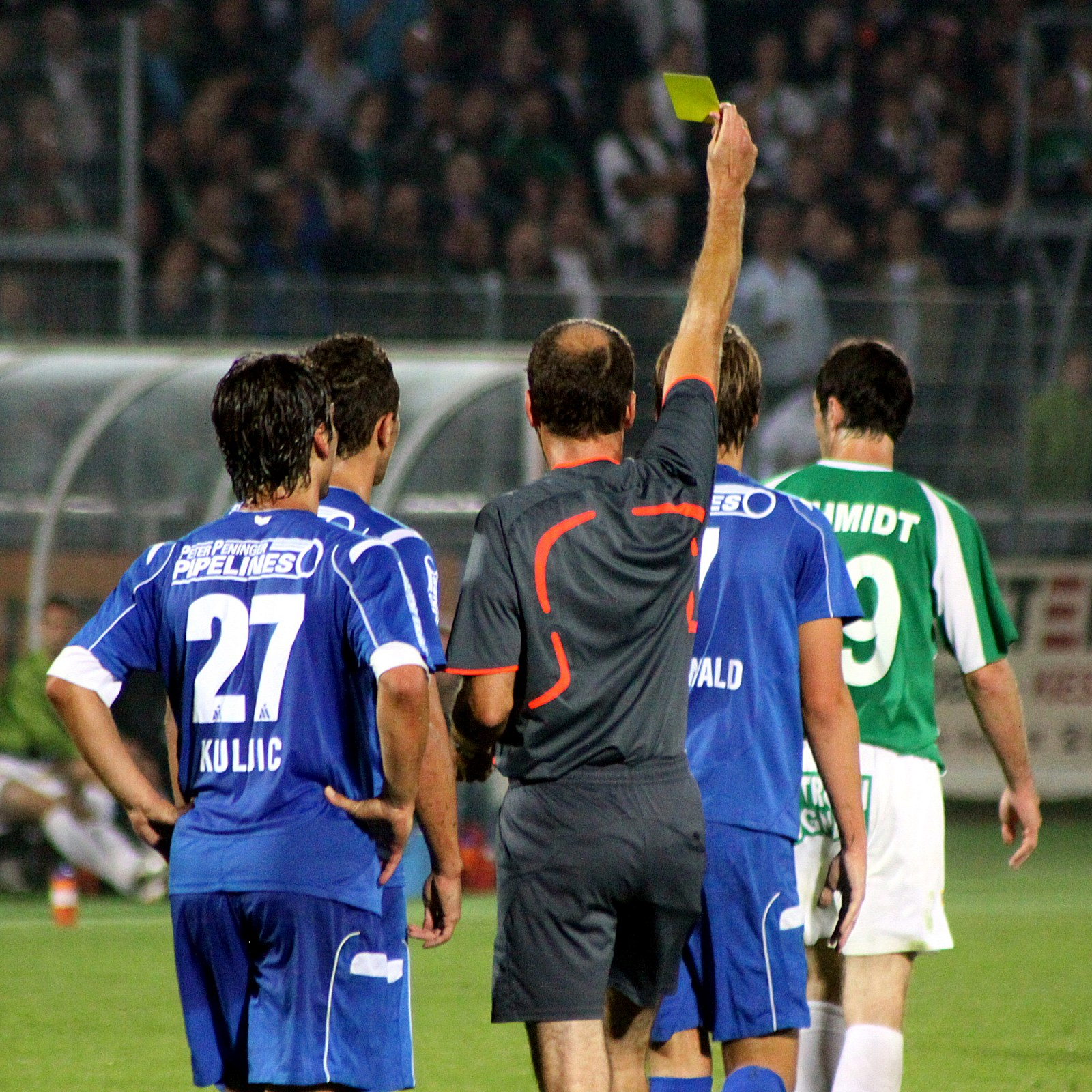 Dietmar Drabek - football-referee of Austria